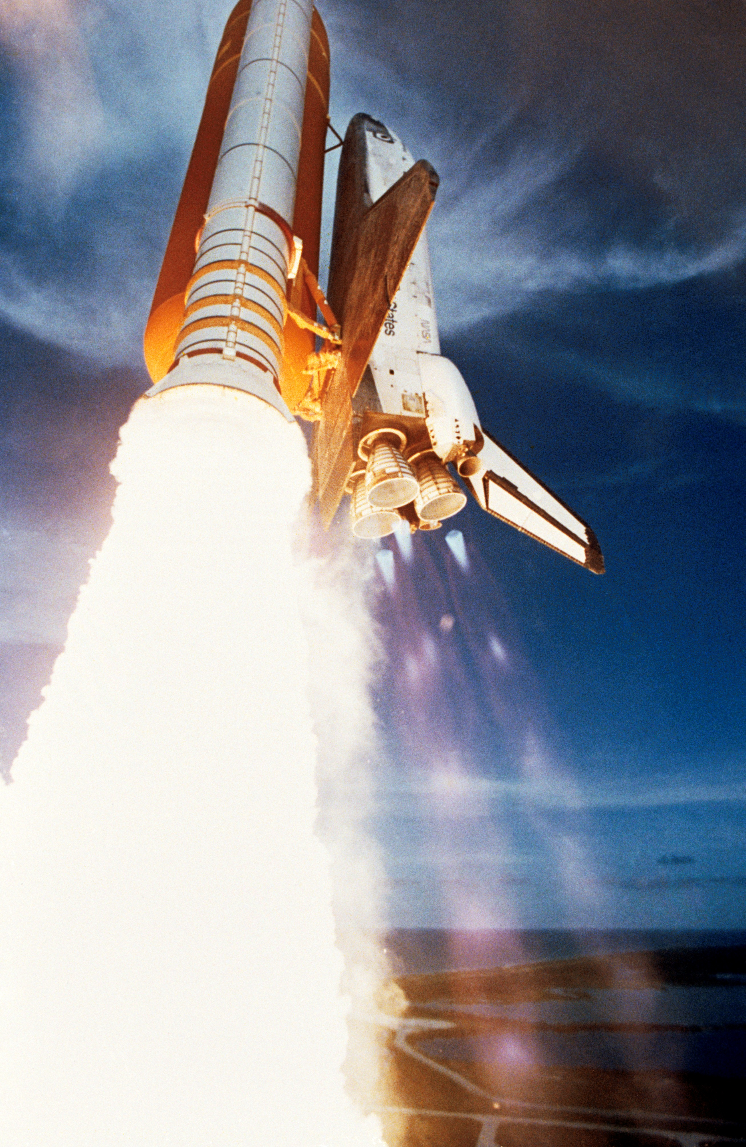 (29 July 1985) Just moments following ignition, the Space Shuttle Challenger, mated to its two solid rocket boosters and an external fuel tank, soars toward a week-long mission in Earth orbit. Note the diamond shock effect in the vicinity of the three main engines. Launch occurred at 5:00 p.m. (EDT), July 29, 1985. Image # : 51F-S-157